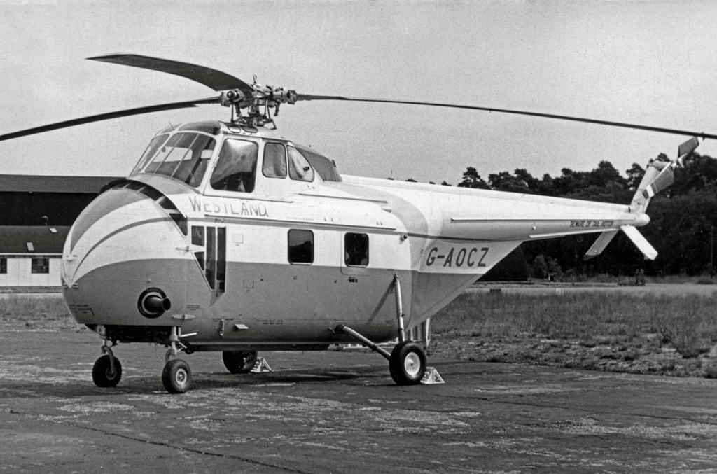 Westland Whirlwind Series 1 G-AOCZ of Westland Helicopters at Blackbushe Airport, Hants, UK, in 1955